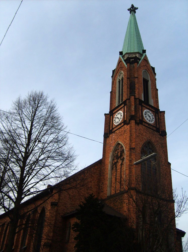 Trinitatiskirche, Wuppertal, Germany